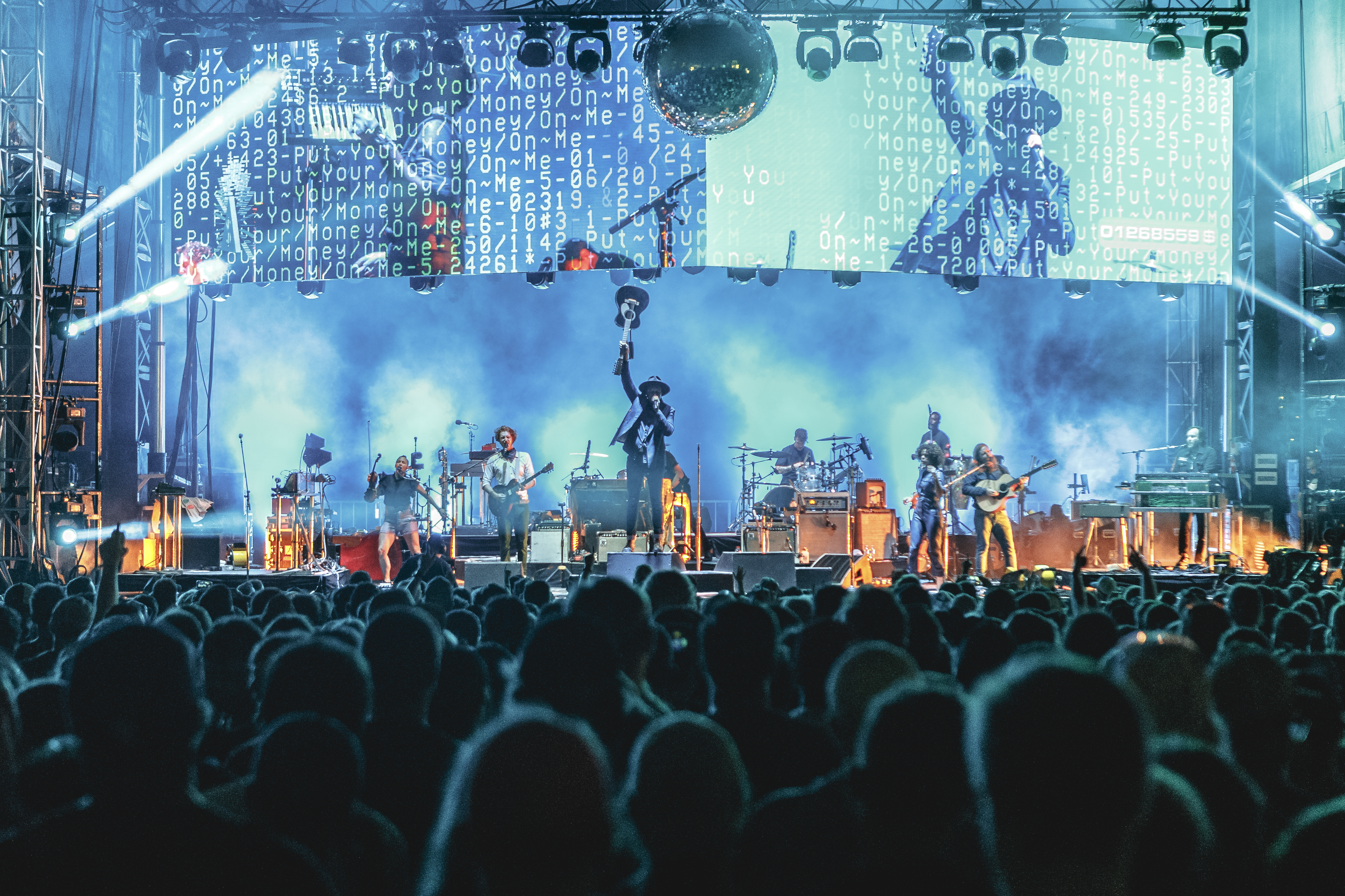 Arcade Fire at Forecastle 2018 Photo: Eli Johnson Photography